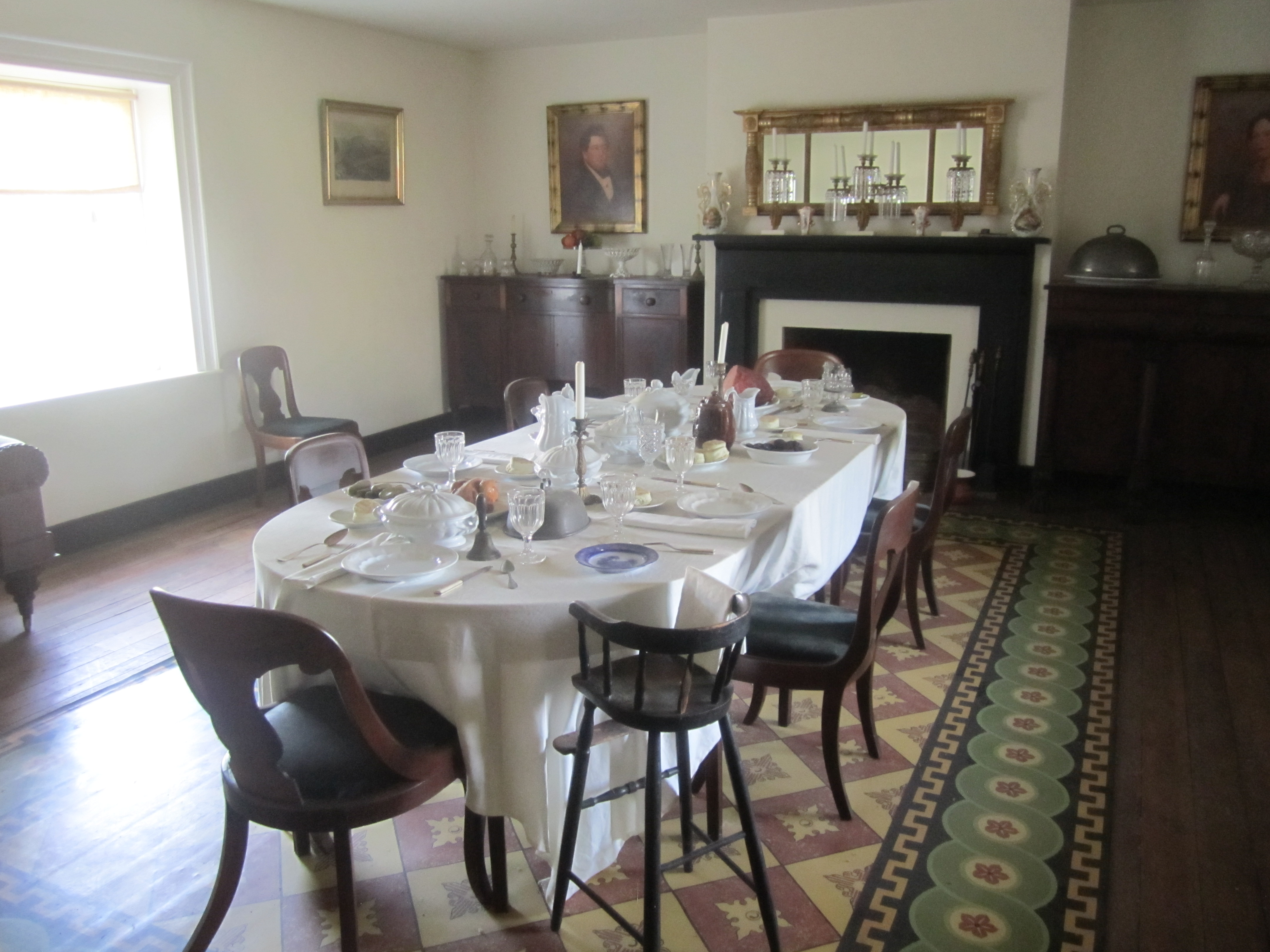 I took photo of dining room at McLean House (U.S. government, no copyright for exhibit) at Appomattox Court House National Historical Park, in VA, using Canon camera.